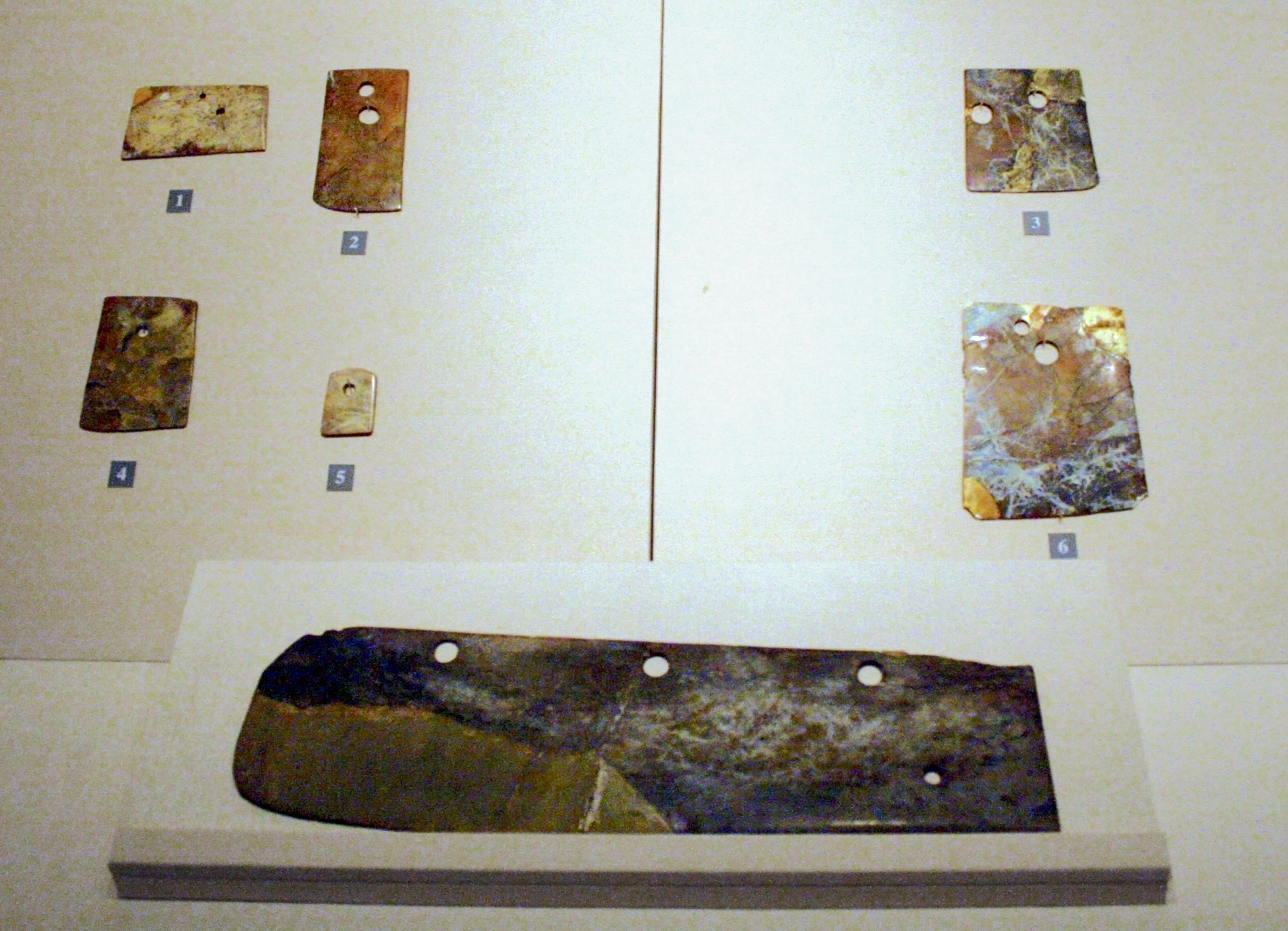 Jadeware produced during Longshan culture period, now collected in Shandong Museum